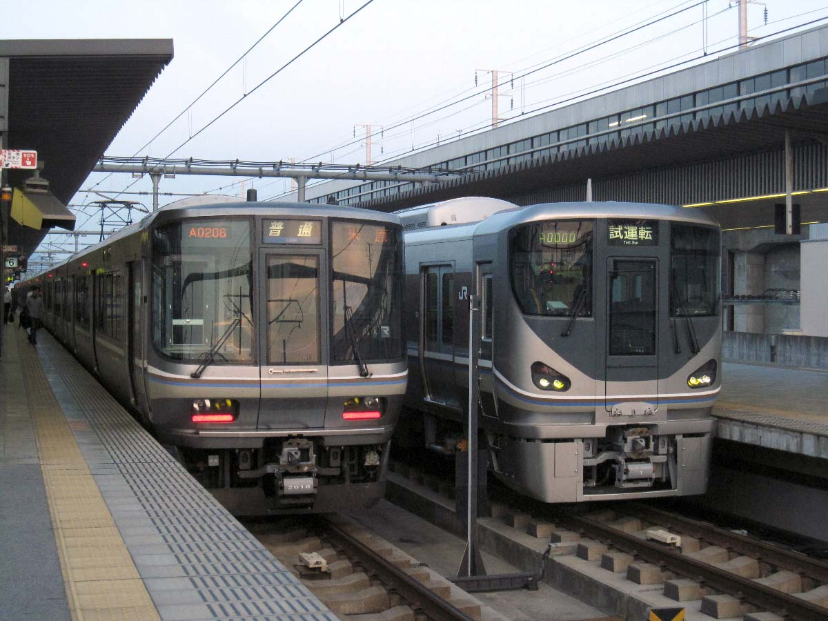 JR West 223 series set W13 (left) and 225 series (right) EMUs at Himeji Station